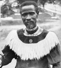 IsaiahShembe (c.1870 – 2 May 1935), was the founder of the Nazareth Baptist Church,South Africa